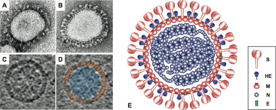 Coronavirus virion morphology, exemplified by virions of viruses of the species Murine coronavirus, type species of genus Betacoronavirus. (A, B) Negative staining (2% phosphotungstic acid) electron micrographs of murine coronavirus particles. Shown are (A) a virion of murine coronavirus laboratory strain A59 (MHV-A59) that lacks hemagglutinin esterase (HE) expression and (B) one of a recombinant MHV-59 virus in which HE expression was restored. (C, D) Cryo-electron tomographs of mouse hepatitis virus. A virtual slice (7.5 nm thick) through a reconstructed MHV particle (left) with highlighted features superimposed (right). The envelope is colored in orange with conspicuous striations highlighted; the nucleocapsid region is colored in blue. Note low-density region (ca. 4 nm) between envelope and nucleocapsid. (E) Schematic representation of a (lineage A) betacoronavirus virion.